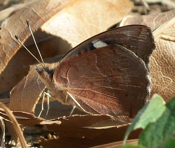 Junonia oenone, Amanzimtoti, South Africa.